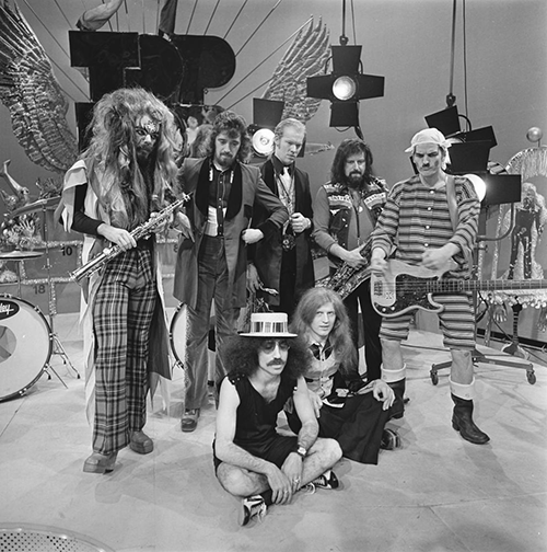 Wizzard in AVRO's TopPop (Dutch television show) in 1974